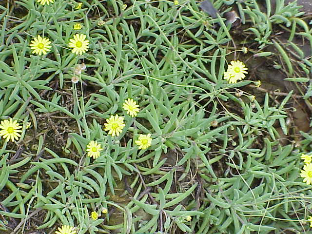 Species: Othonna capensis Family: Asteraceae Image No. 2